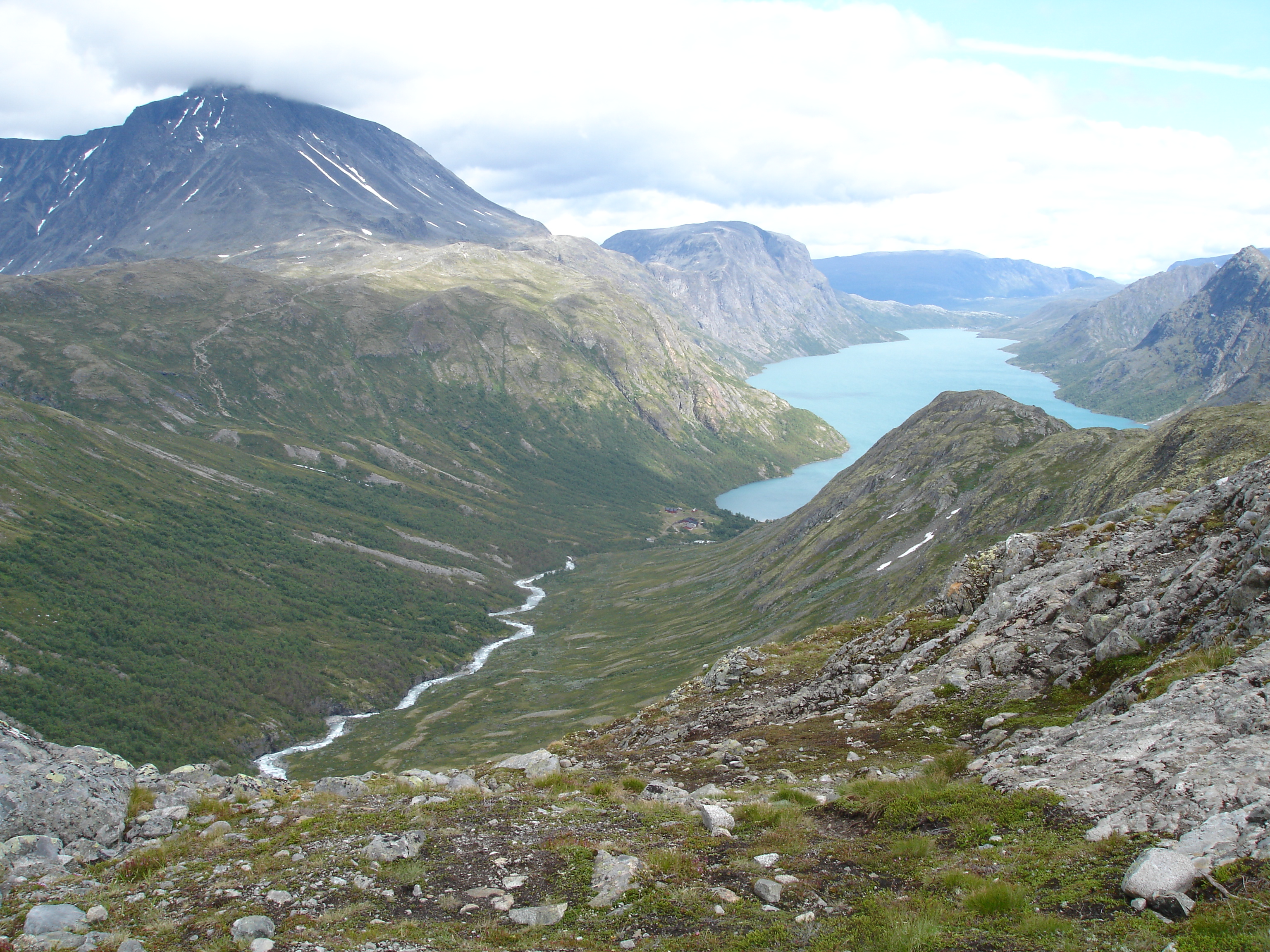 Memurubu in the middle of the photo. Also with Besseggen and lake Gjende.